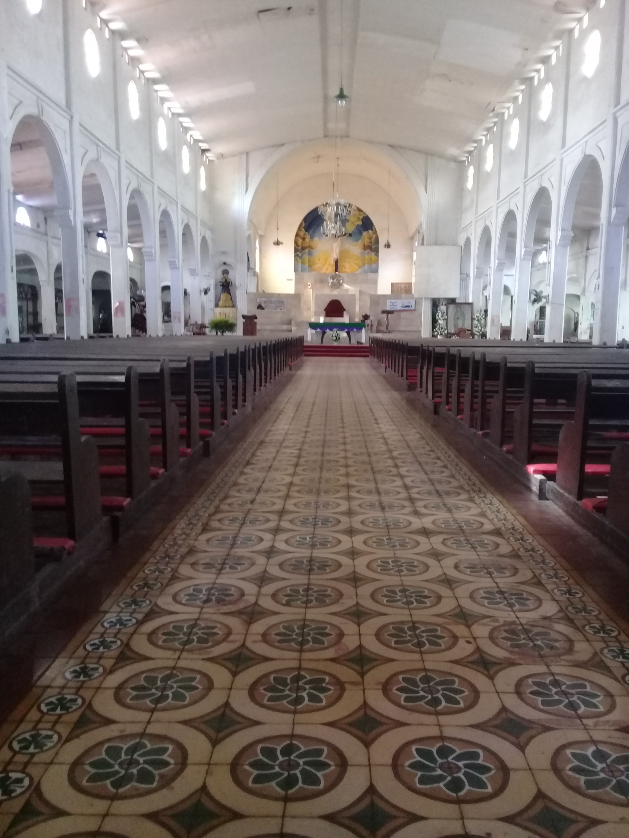 The image shot at the nave of the old St. Nicholas de Tolentino Cathedral in Tandag City, Surigao del Sur, Philippines